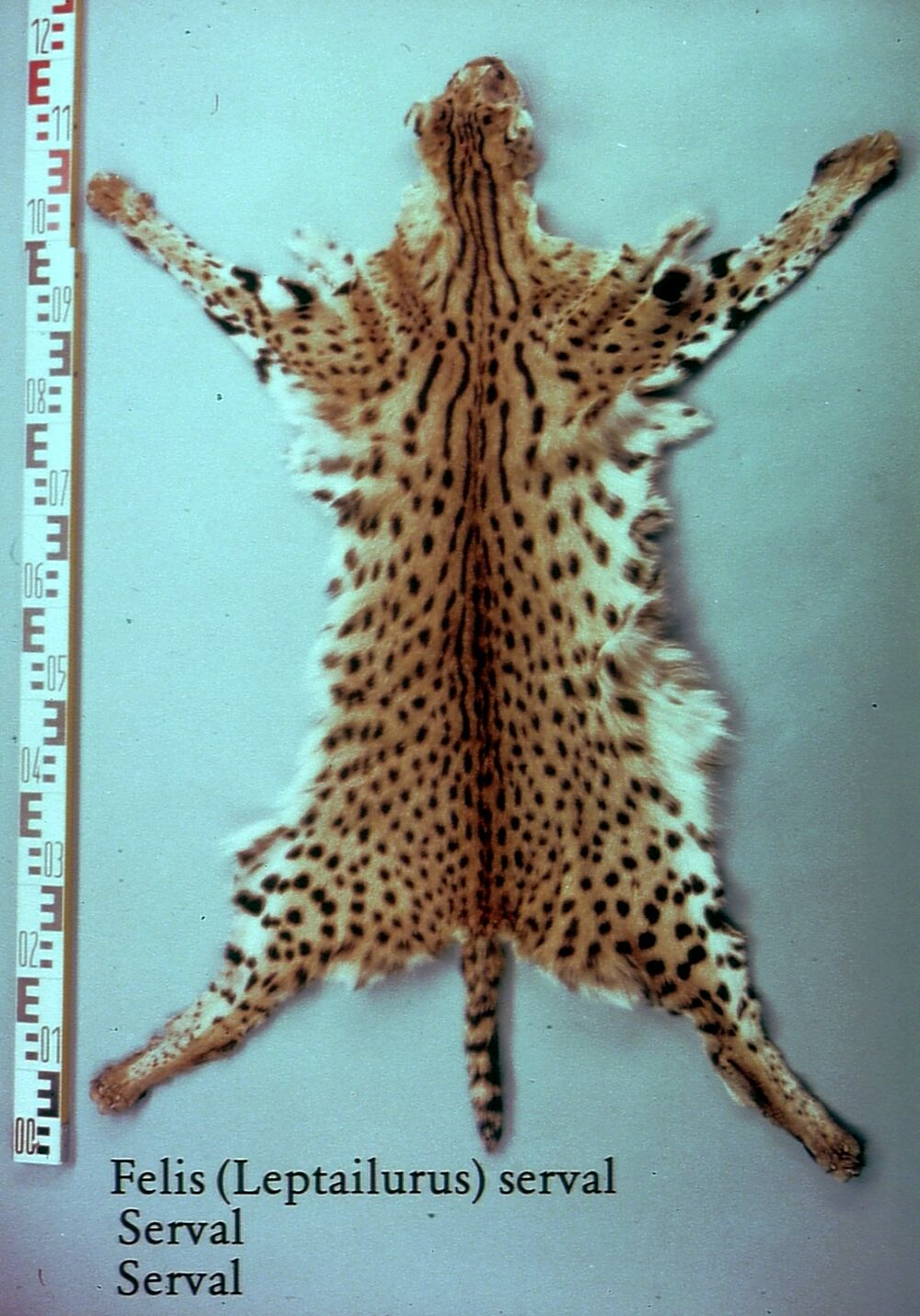 Serval fur skin (Leptailurus serval). Fur skin collection, Bundes-Pelzfachschule, Frankfurt/Main, Germany